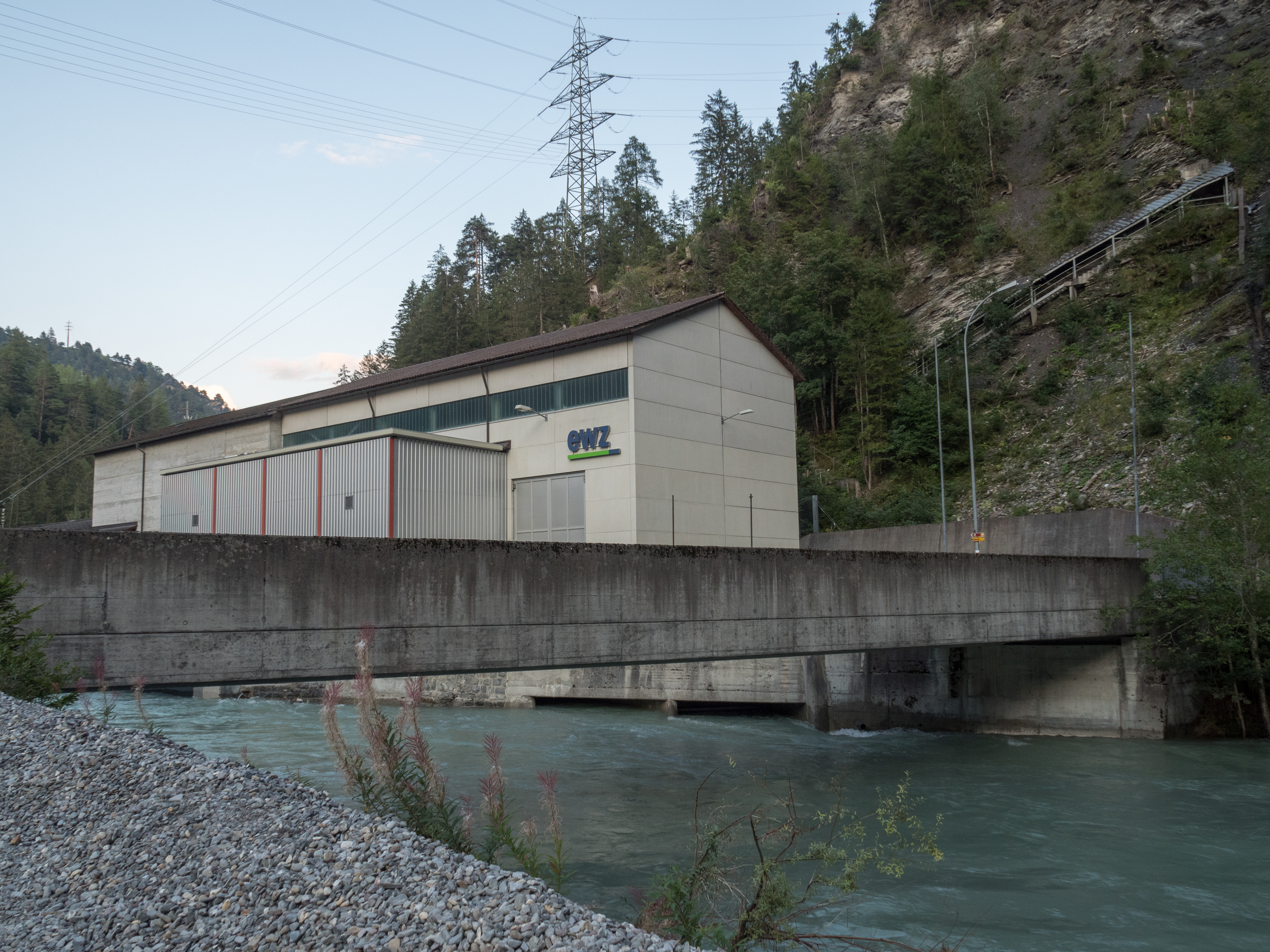 Road Bridge over the Albula River, Tiefencastel, Canton of Grisons, Switzerland